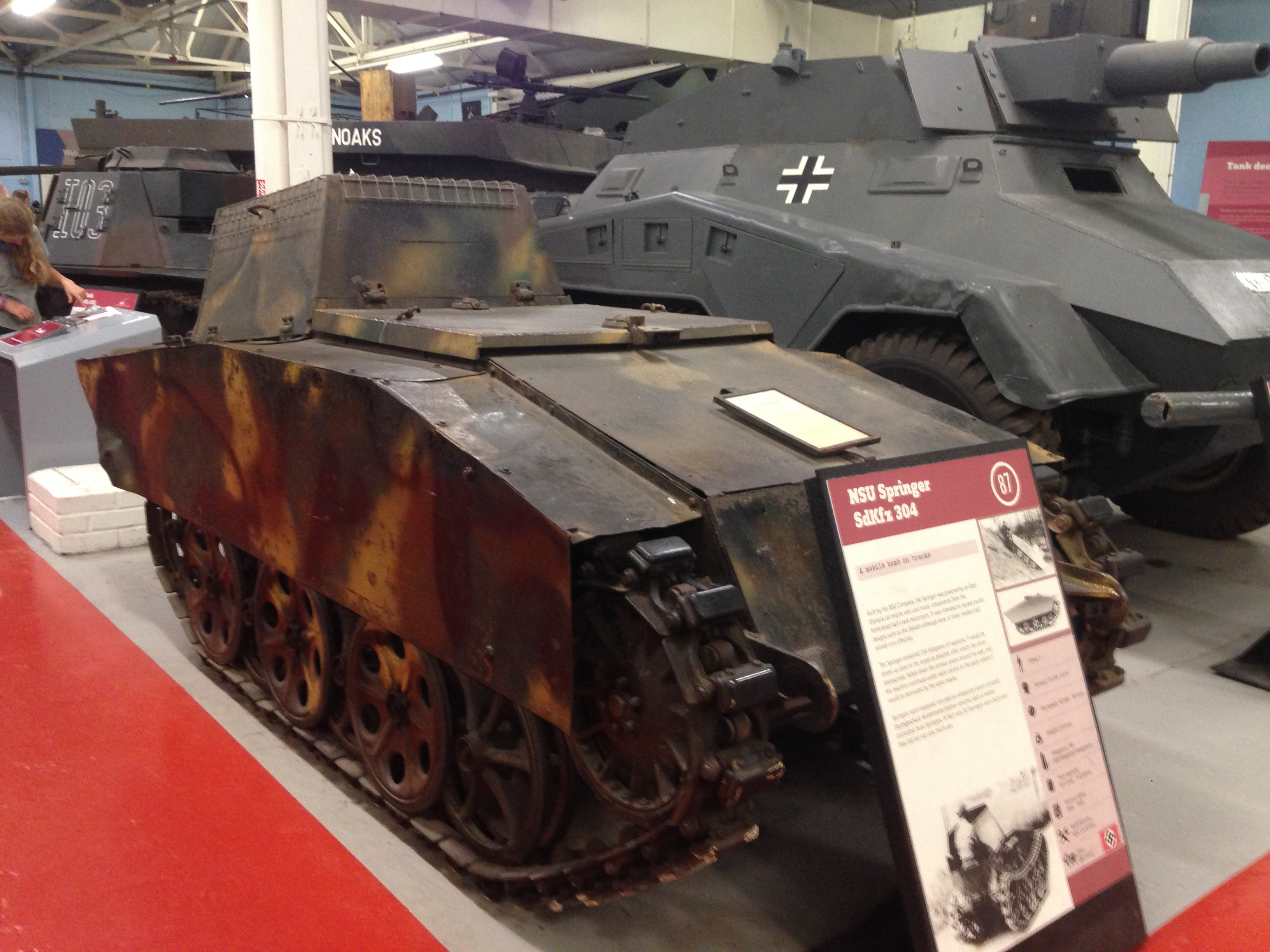 Taken in Bovington Tank Museum